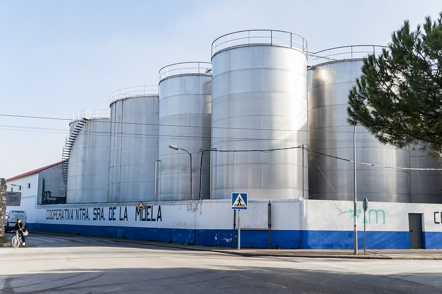 Coperativa de vino en Corral de Almaguer